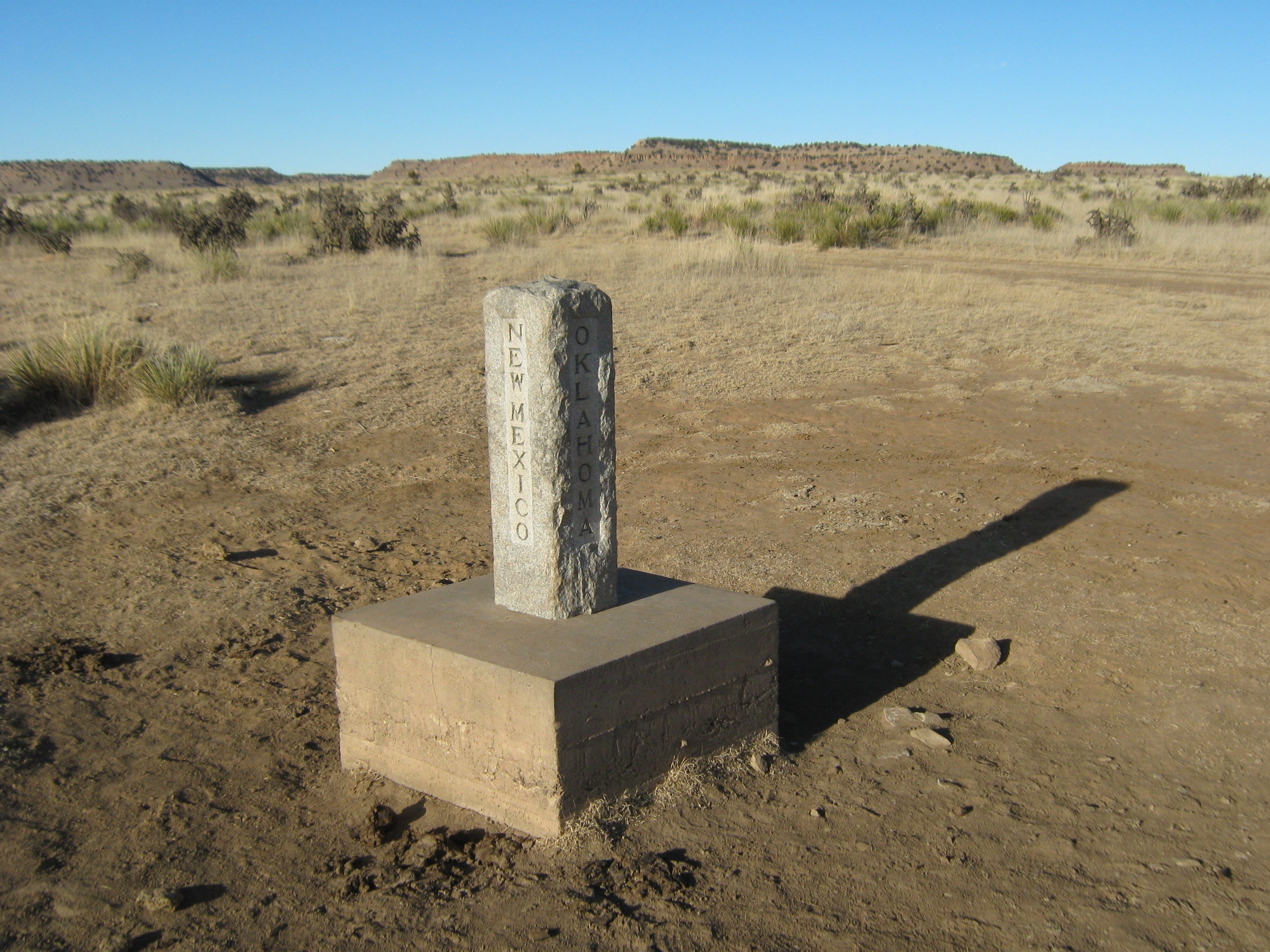 The south side of Preston Monument, showing the Oklahoma face and the New Mexico face. Preston Monument marks the boundary between New Mexico, Oklahoma, and Colorado.